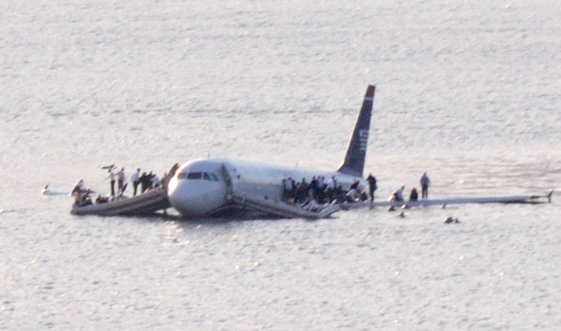 US Airways Flight 1549 in the Hudson River, New York, USA on 15 January 2009 (crop)